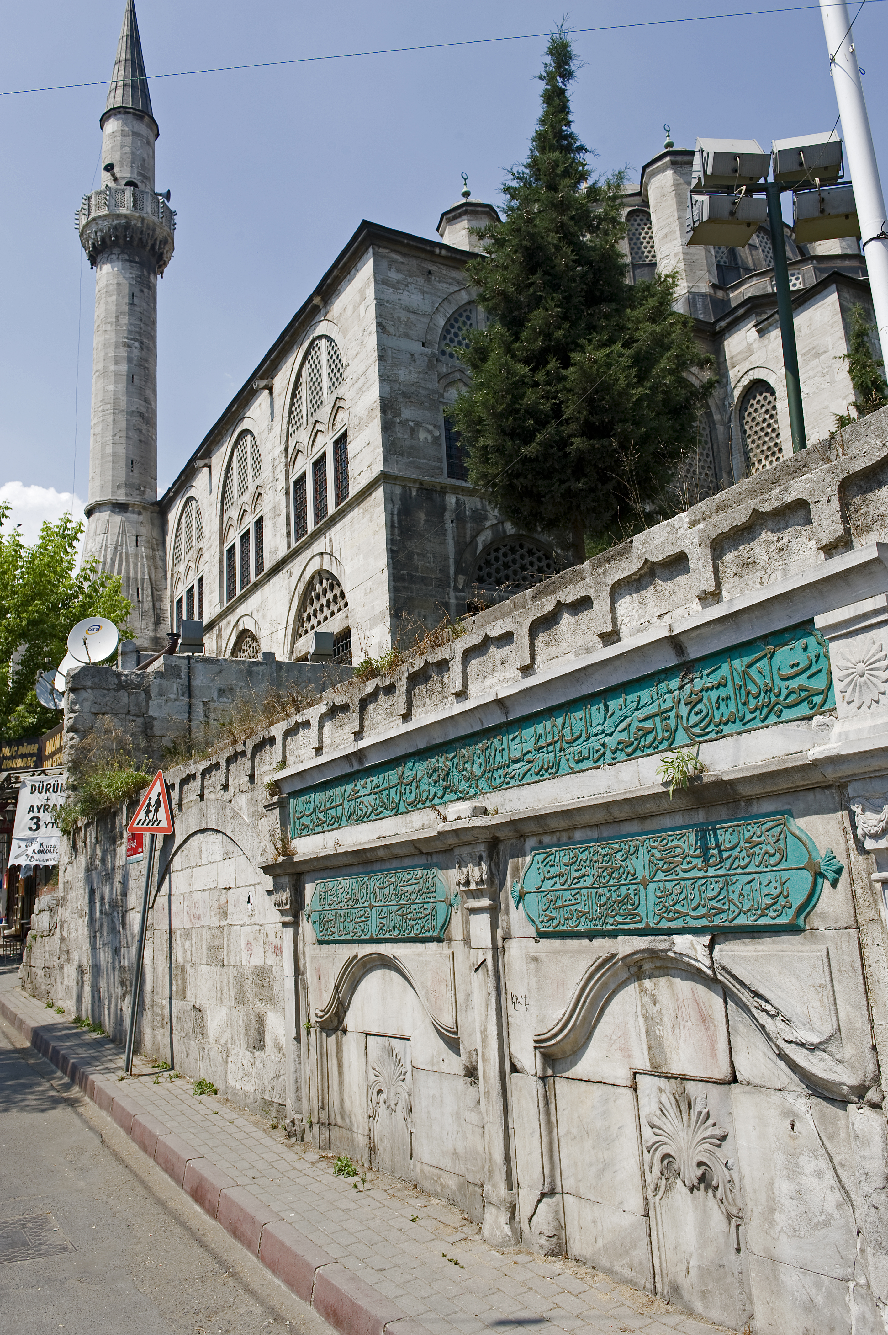 The Mesih Paşa Mosque is a lovely mosque that, maybe for that reason, is attributed to the great architect Sinan. However, the Strolling through Istanbul guide states there is no evidence for this attribution. It was founded in 1585 by the eunuch Mesih Mehmet Paşa, who was infamous for his cruelty as Governor of Egypt. When he was 90 years of age he briefly was Grand Vezir under Murat III. The guide mentions an awkward fact that struck me too: there are arcades that normally would extend the mosque to the left en right side, but they are not connected to the room of the mosque proper. Instead, you have to go out and then stare at these arcades, that I could not enter. The guide also mentions superior Iznik tiles, rightly so.